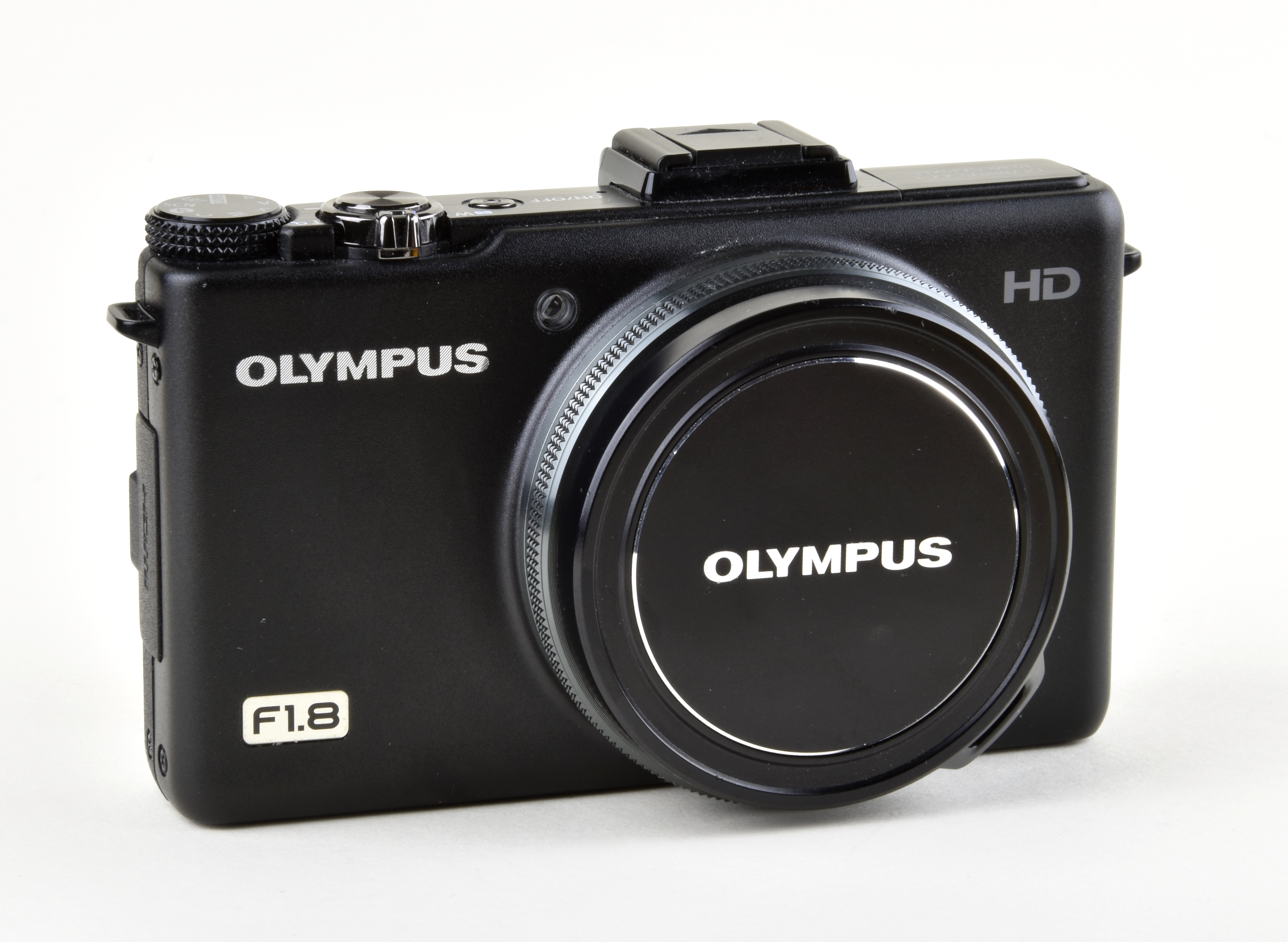 Olympus XZ-1, switched off and with the lens cap on.